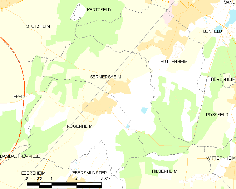 Map of French municipality